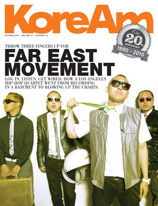 Magazine cover of KoreAm from October 2010; Far East Movement